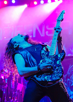 Michael Wilton in Reno Nevada Dec 2013. Photo by Designs By ML